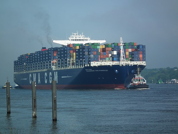 Container ship CMA CGM Alexander von Humboldt on maiden voyage upriver elbe amounting pilot station Seemannshöft, 28 05th 2013